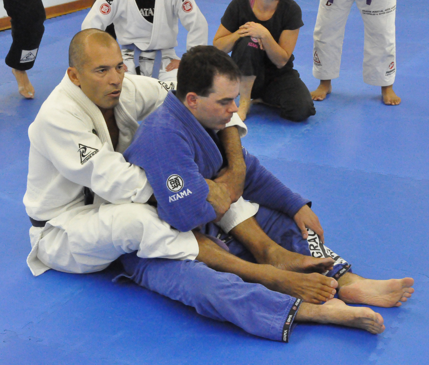 Royce Gracie giving a Gracie Jiu-Jitsu seminar (day one).